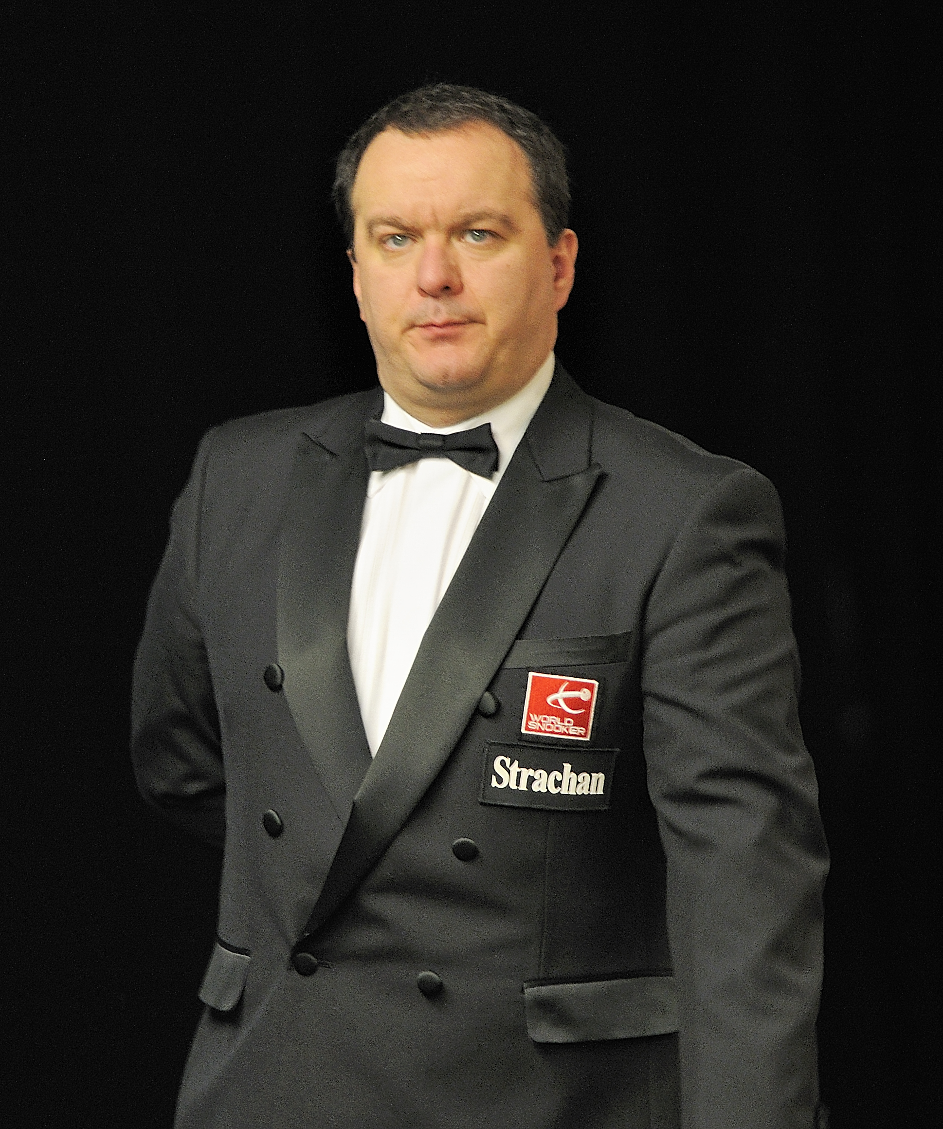 Picture taken in Berlin during the Snooker German Masters in 2014. Greg Coniglio.